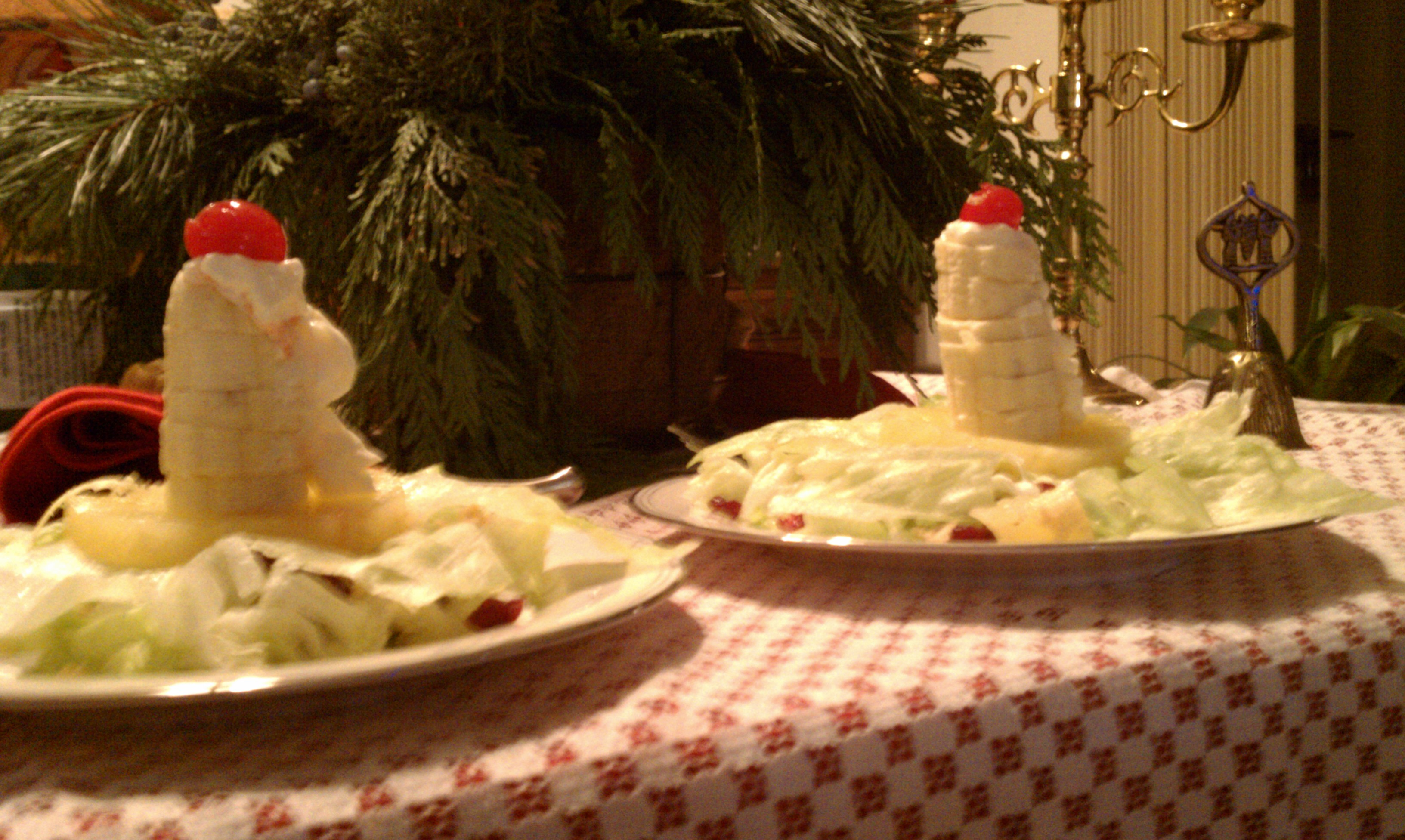 Candle salad, slightly modified by slicing the banana instead of leaving it whole.